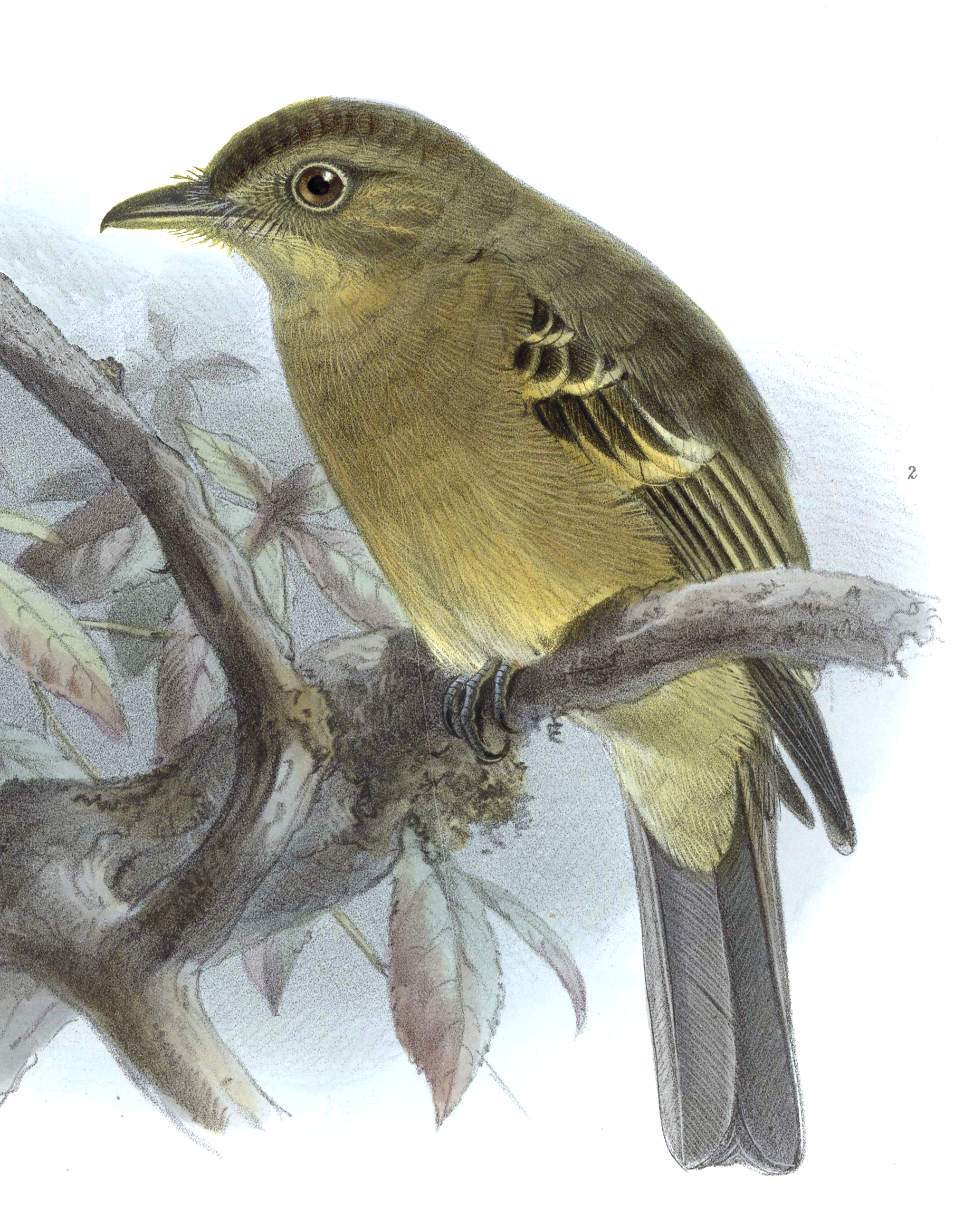 « Contopus ochraceus » = Contopus ochraceus (Ochraceous Pewee)